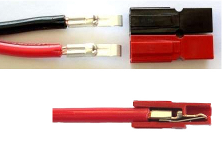 Anderson Powerpole cutaway view and crimped contacts